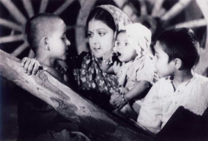 Aurat screenshot